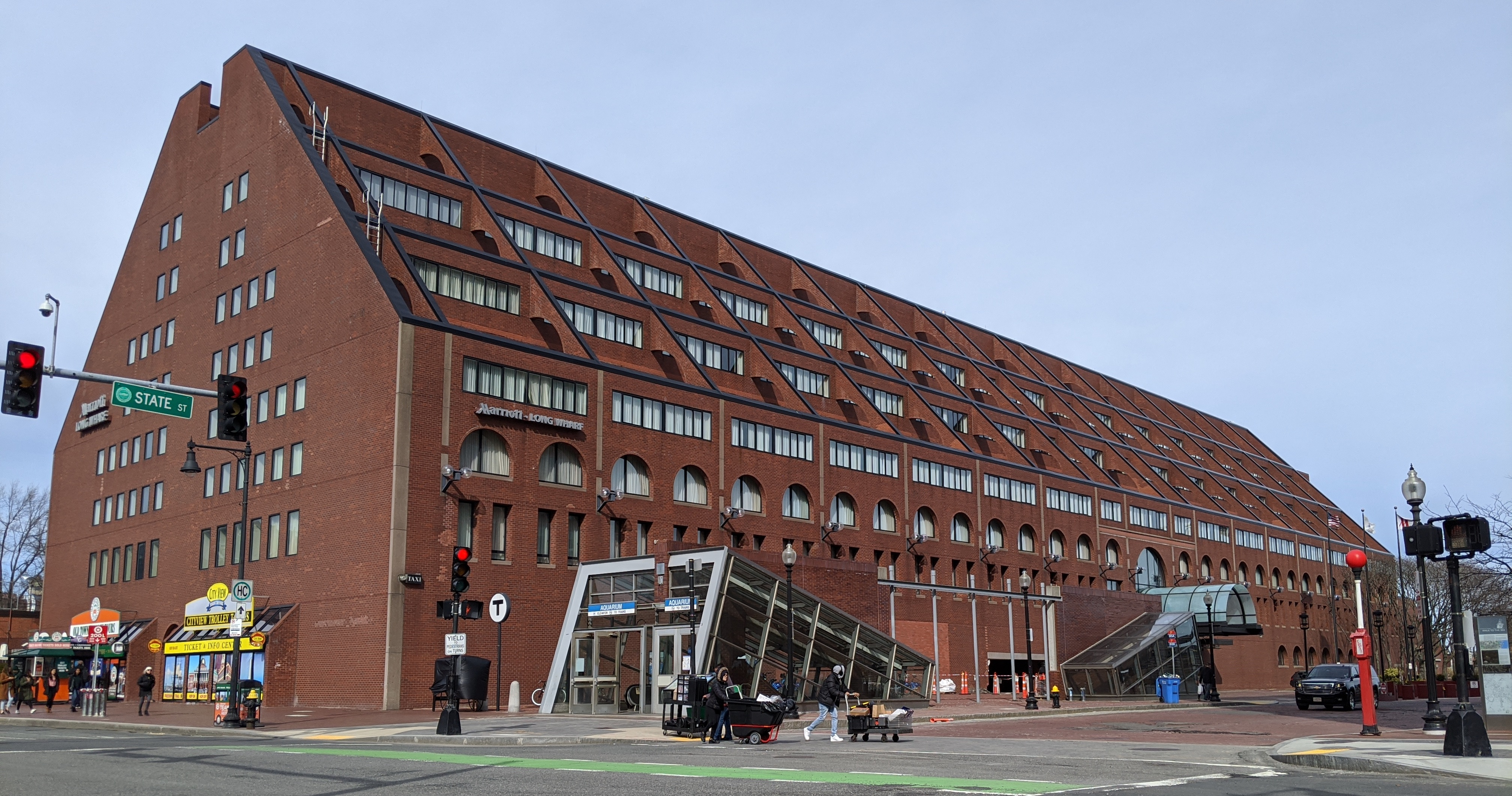 Marriott Long Wharf hotel, west and south sides in Boston, Massachusetts on 2020-03-14. An MBTA station can be seen in the foreground.